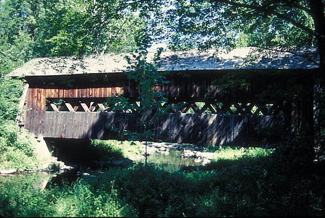 ALSO KNOWN AS NEW PALTZ CAMPUS OR TURNWOOD BRIDGE in Ulster County, New York, USA. 62’ TOWN Truss OVER ESOPUS CREEK; built 1889